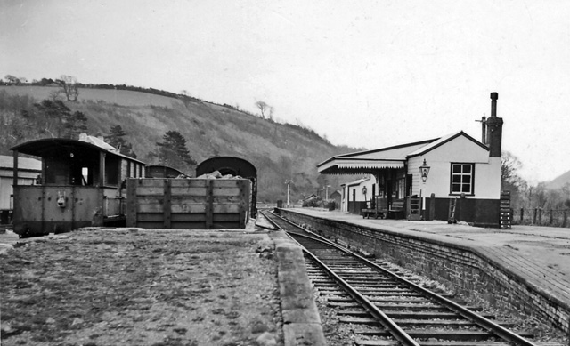 Aberaeron station. View SE (away from buffers) of terminus of branch from Lampeter, seven years since closure to passengers, but still open for goods (and milk) until 5 April 1965.